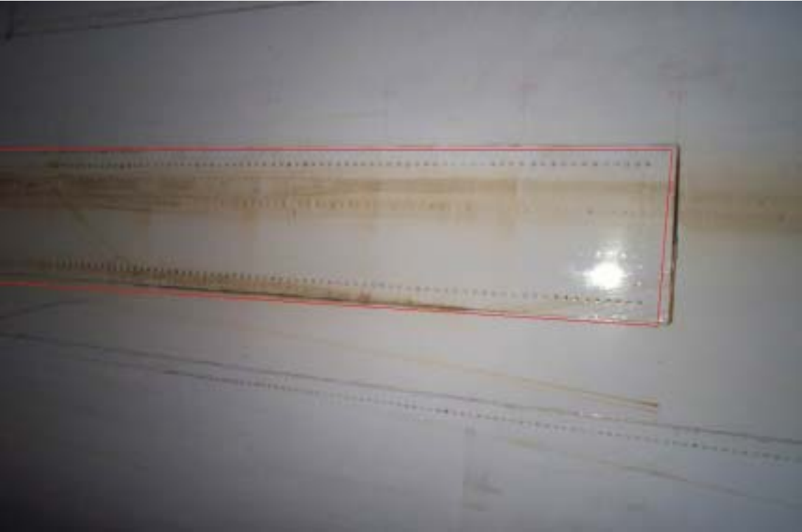 Nicotine stains around the doubler plate of China Airlines Flight 611